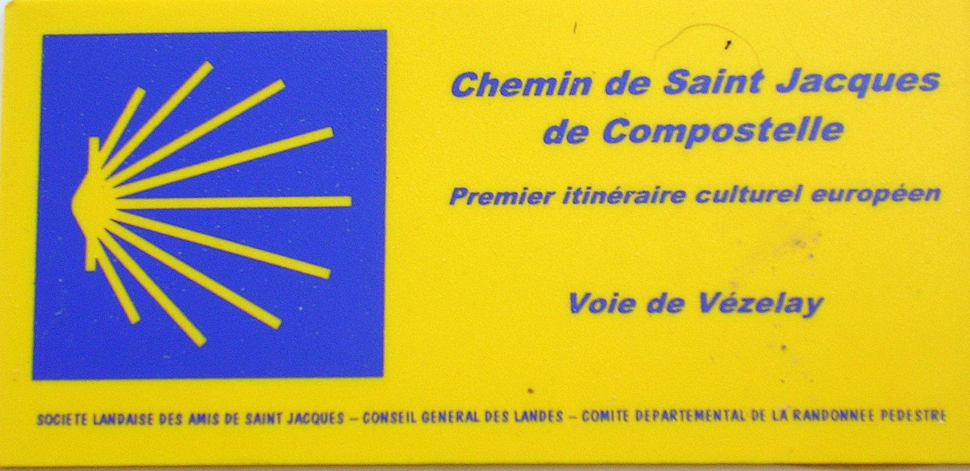 St James Compostela walking sign in Benquet, Landes, France. Photo taken by Jibi44